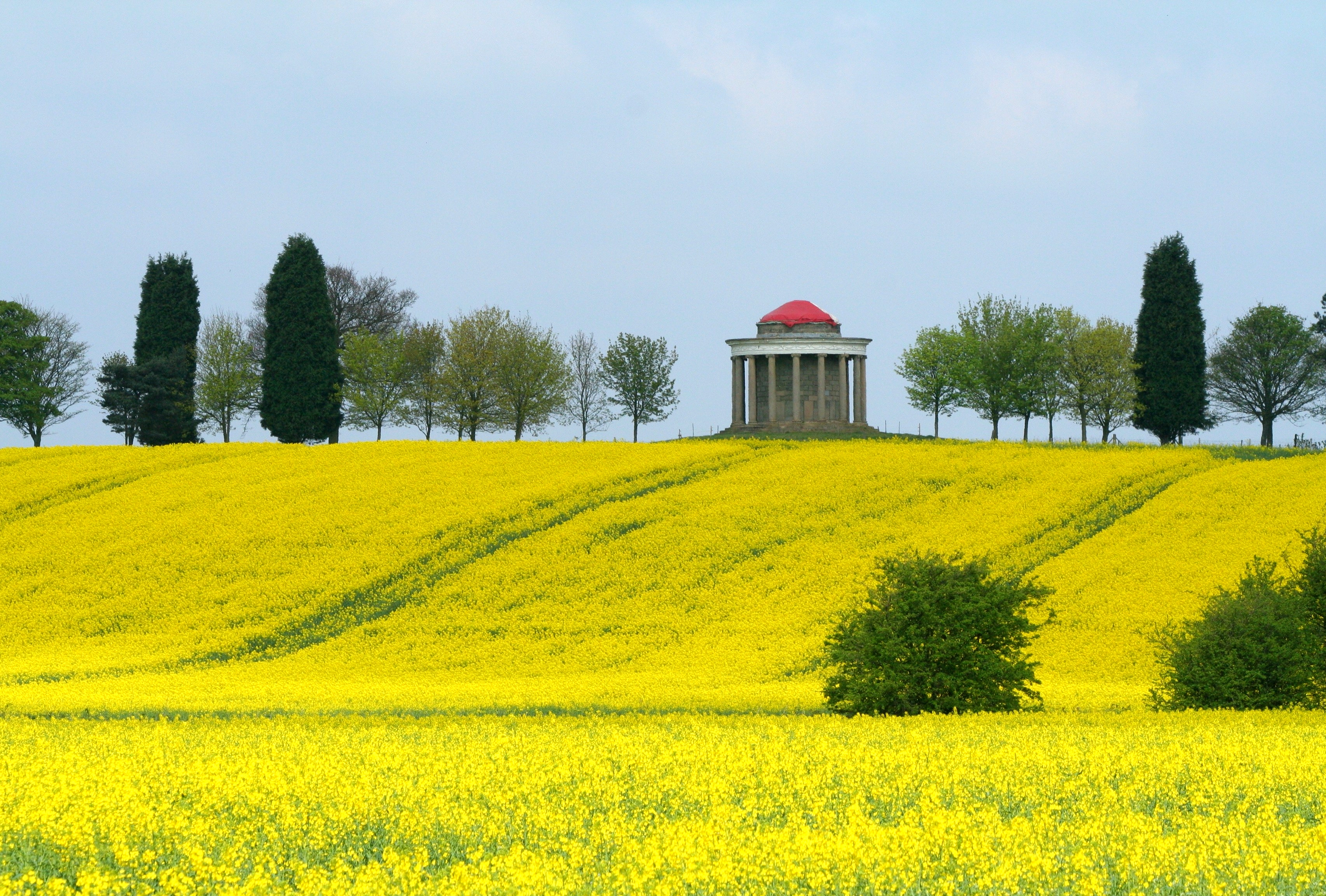 Temple, of the 1730s, by Ambrose Phillipps of Garendon (d.1737). Of ashlar , with carved oak entablature and copper dome. Circular plan, loosely based on the Temple of Vesta at Tivoli. Raised on 4 steps, with a peristyle of Ionic columns. Entablature painted white, with the frieze of ox skulls and small bays with swags between. The roof member of the cornice has lions? heads at intervals. The centre of the temple has a circular apartment with rusticated walls, classical doorcase and 2 fold fielded-panel door. The interior originally contained a statue of Venus, now lost, perhaps destroyed by Luddite rioters in 1811. Mark Aironard, ?Ambrose Phillipps of Garendon?, Architectural History, 1965. – Colour in the foreground provided by rape seed, the bane of any sufferer of hayfever though fortunately I don't suffer from it myself. – I was a bit naughty in getting this shot as I trespassed by walking along a private road, though in doing so I didn't do any damage to the road (or anything else for that matter) which the landowner would have to prove if he wanted to sue me for civil trespass.